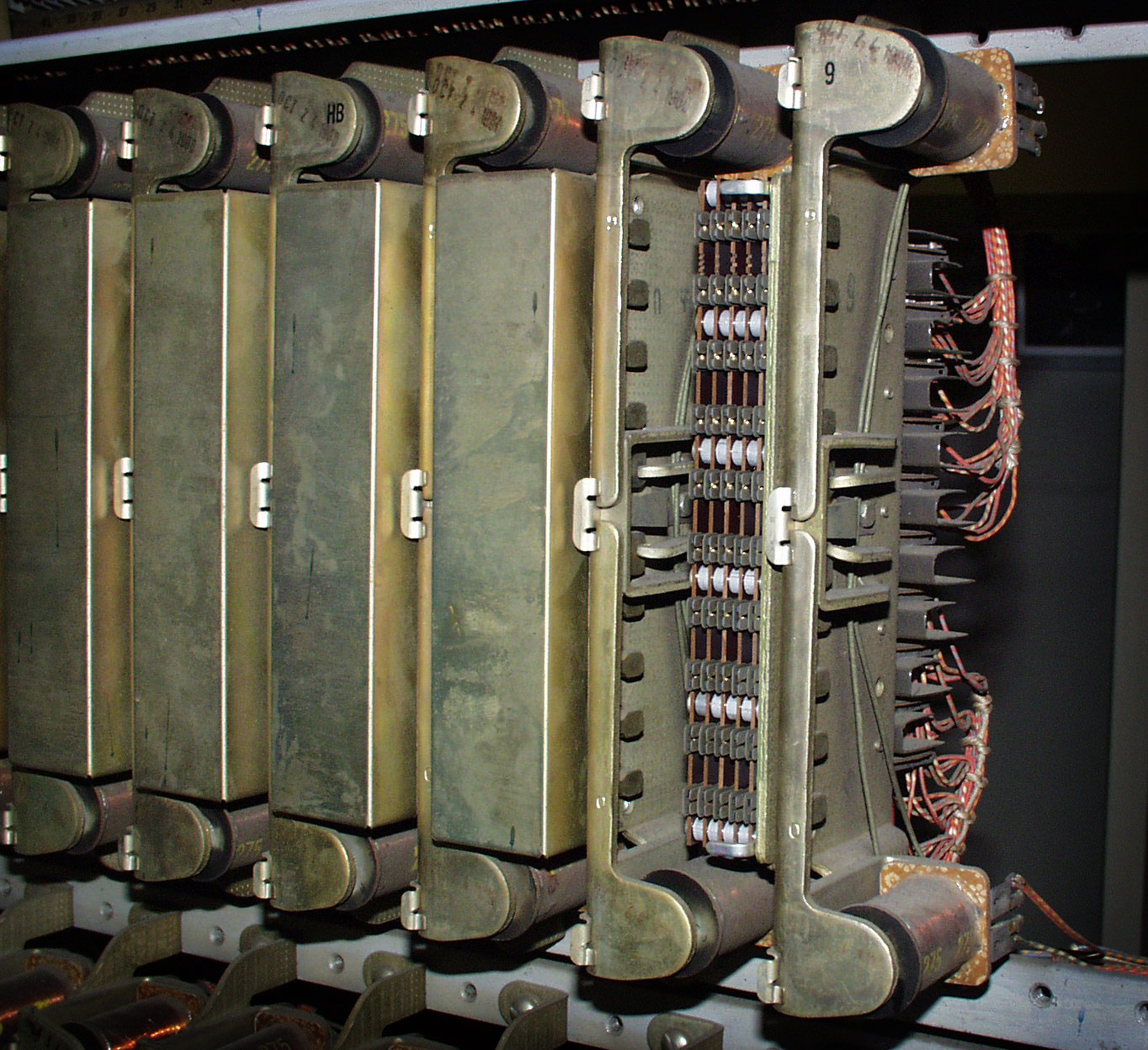 Detail of "flat spring" U-Y type multi-contact relays of type installed in 1950s and early 60s. The relay at right has its cover removed, showing contacts and actuating card. These relays were used extensively in connector circuits throughout crossbar offices. Seen here at the No. 5 Crossbar office on display at The Museum of Communications in Seattle, Washington. June, 2000.